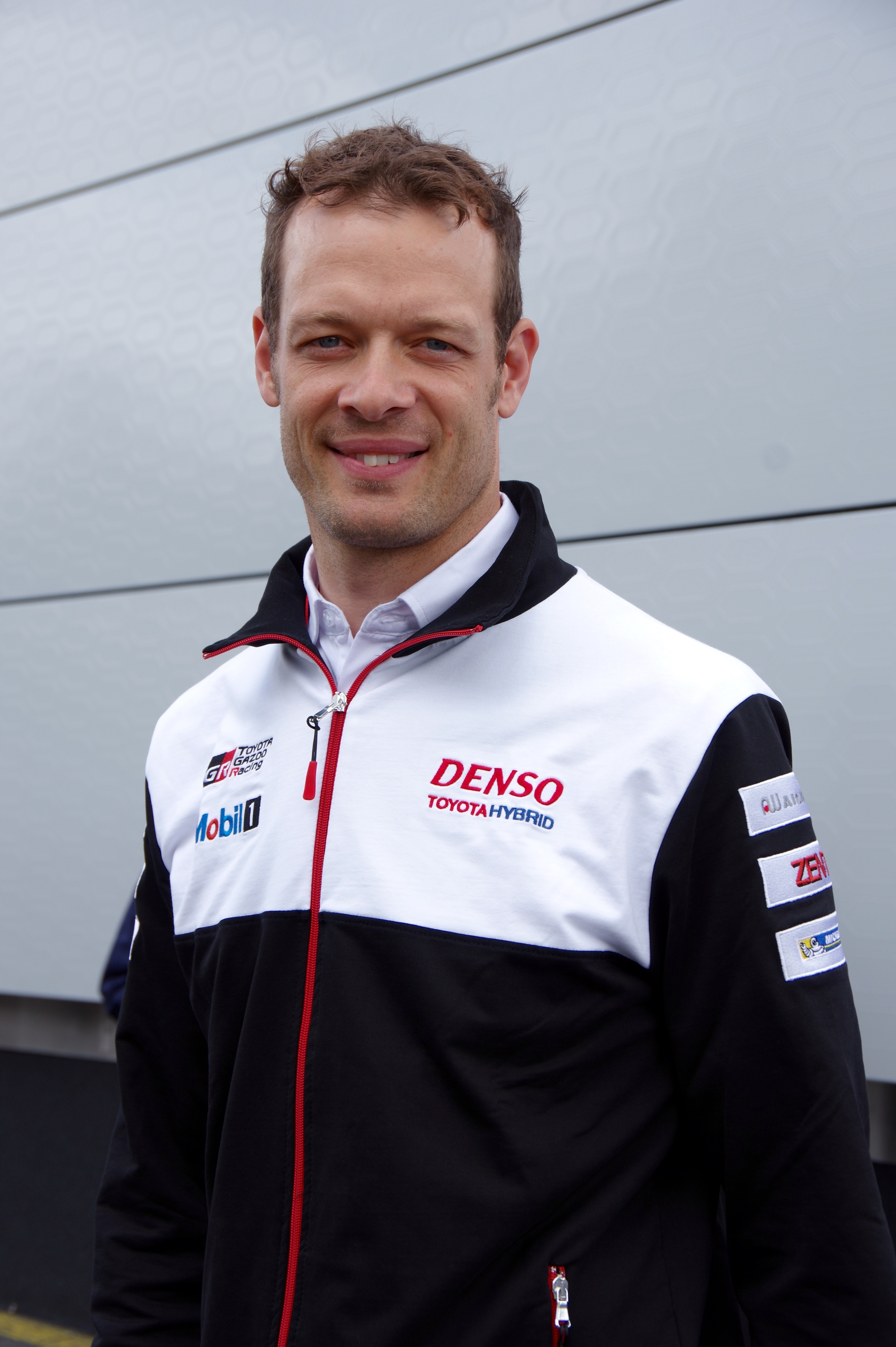 Two-time 24 Hours of Le Mans winner Alexander Wurz at the pit walk for the 2016 edition of the event